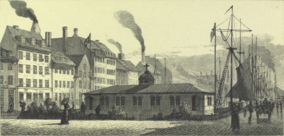 Bethelskib at Nyhavn in Copenhagen, Denmark